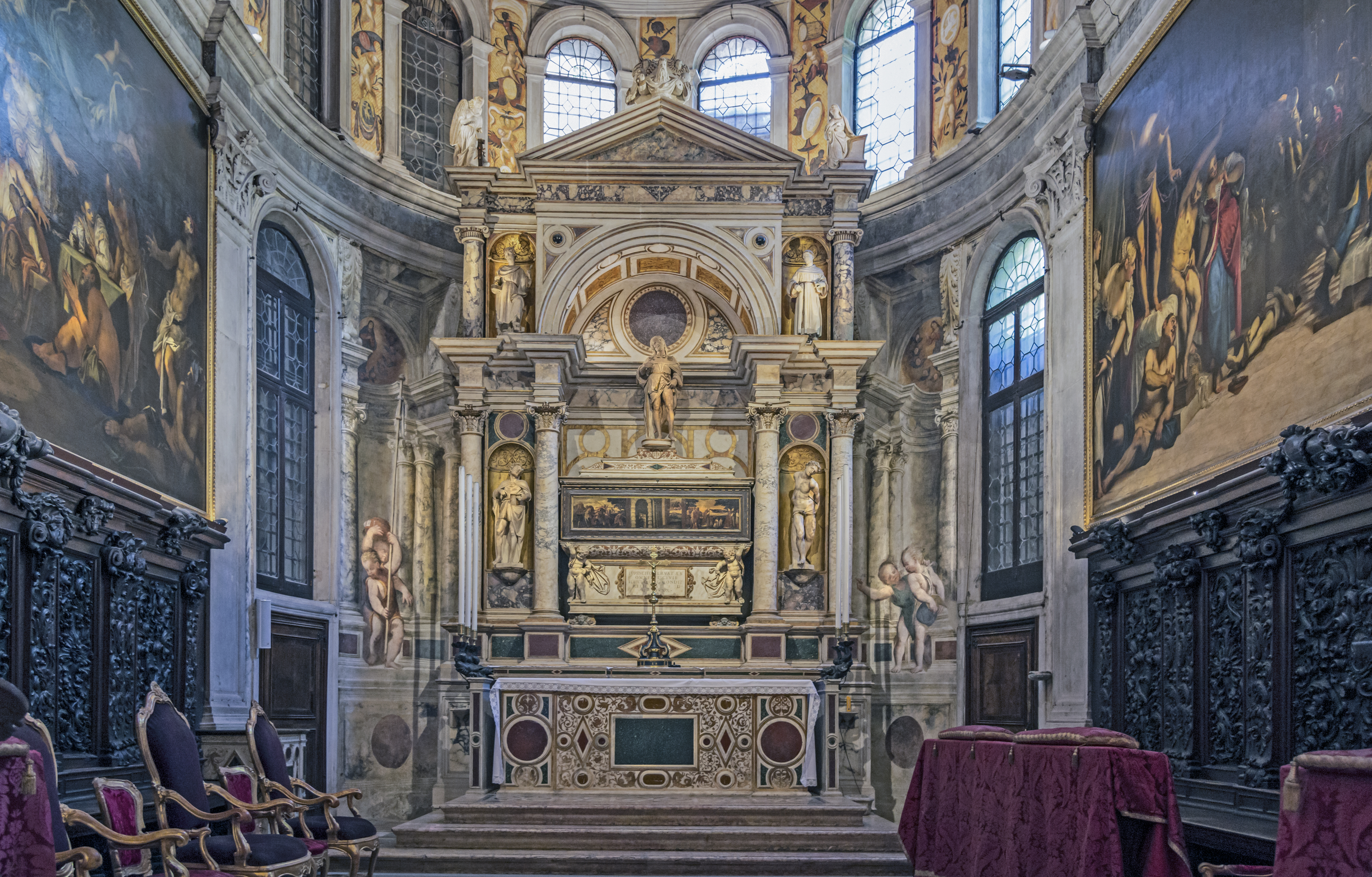 Church of San Rocco in Venice - interior. The high altar (1517-1524) was designed by Venturino Fantoni; the statues of the altarpiece are the work of Giovanni Maria Mosca and Bartolomeo Bergamasco.